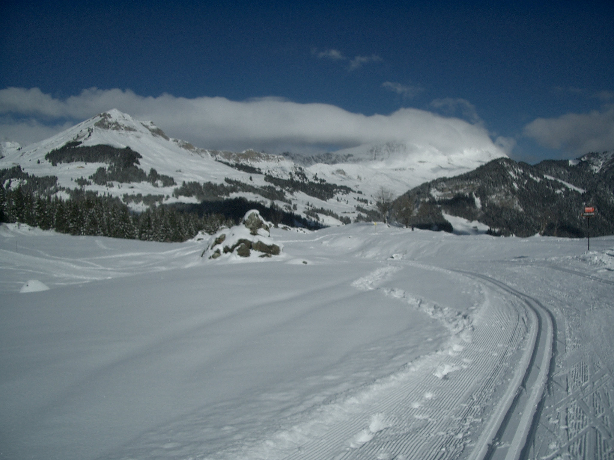 A cross-country skiing track in France